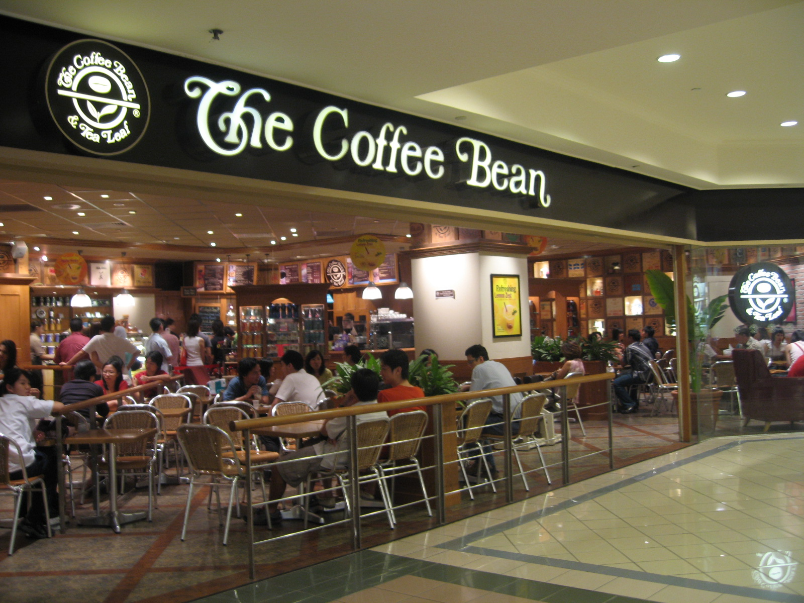 The Coffee Bean & Tea Leaf at Ngee Ann City, Singapore.